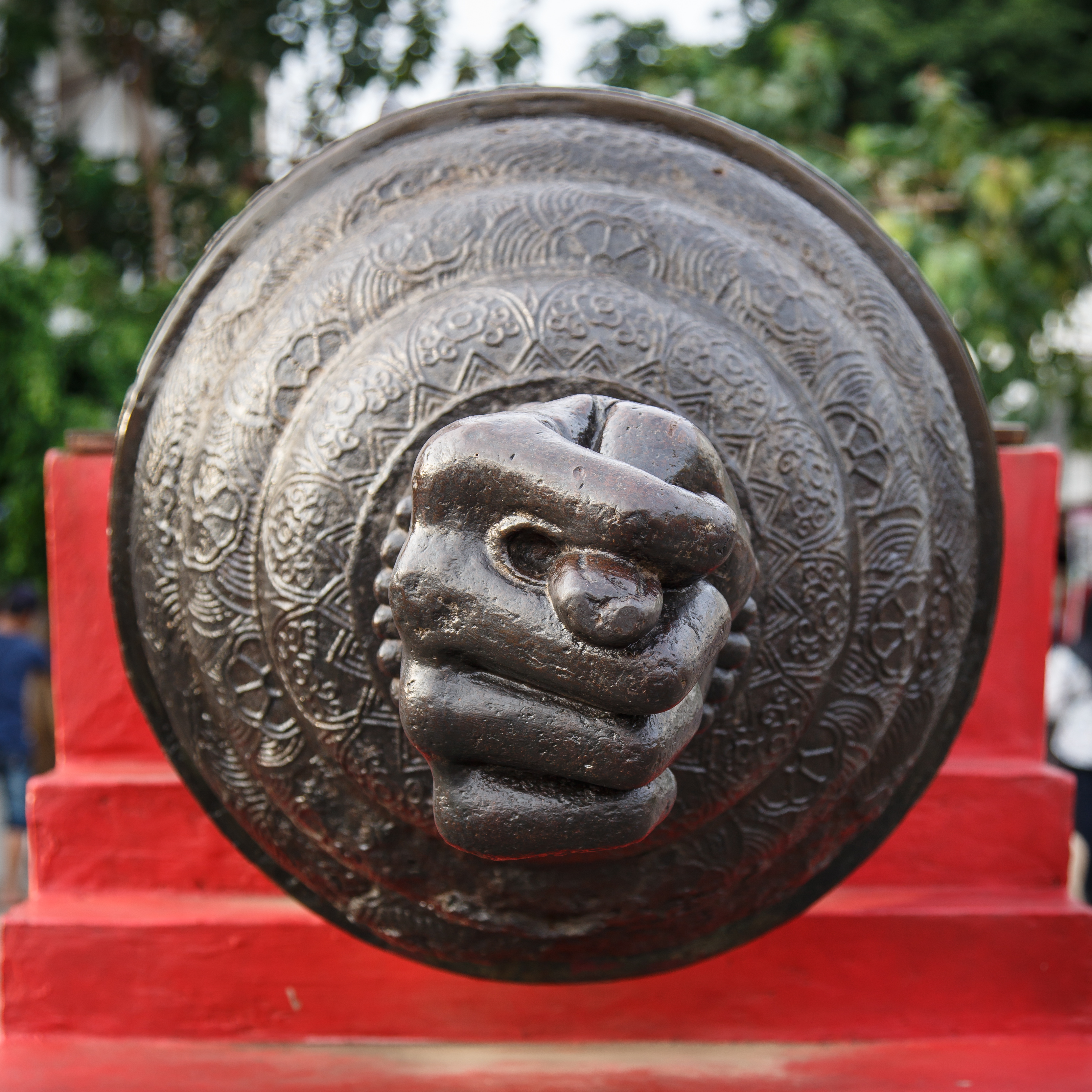 Jakarta, Indonesia: Si Jagur Cannon at Fatahillah Square. The Portuguese cannon comes with a hand ornament showing a fico gesture, which is believed by local people to be able to induce fertility on women.